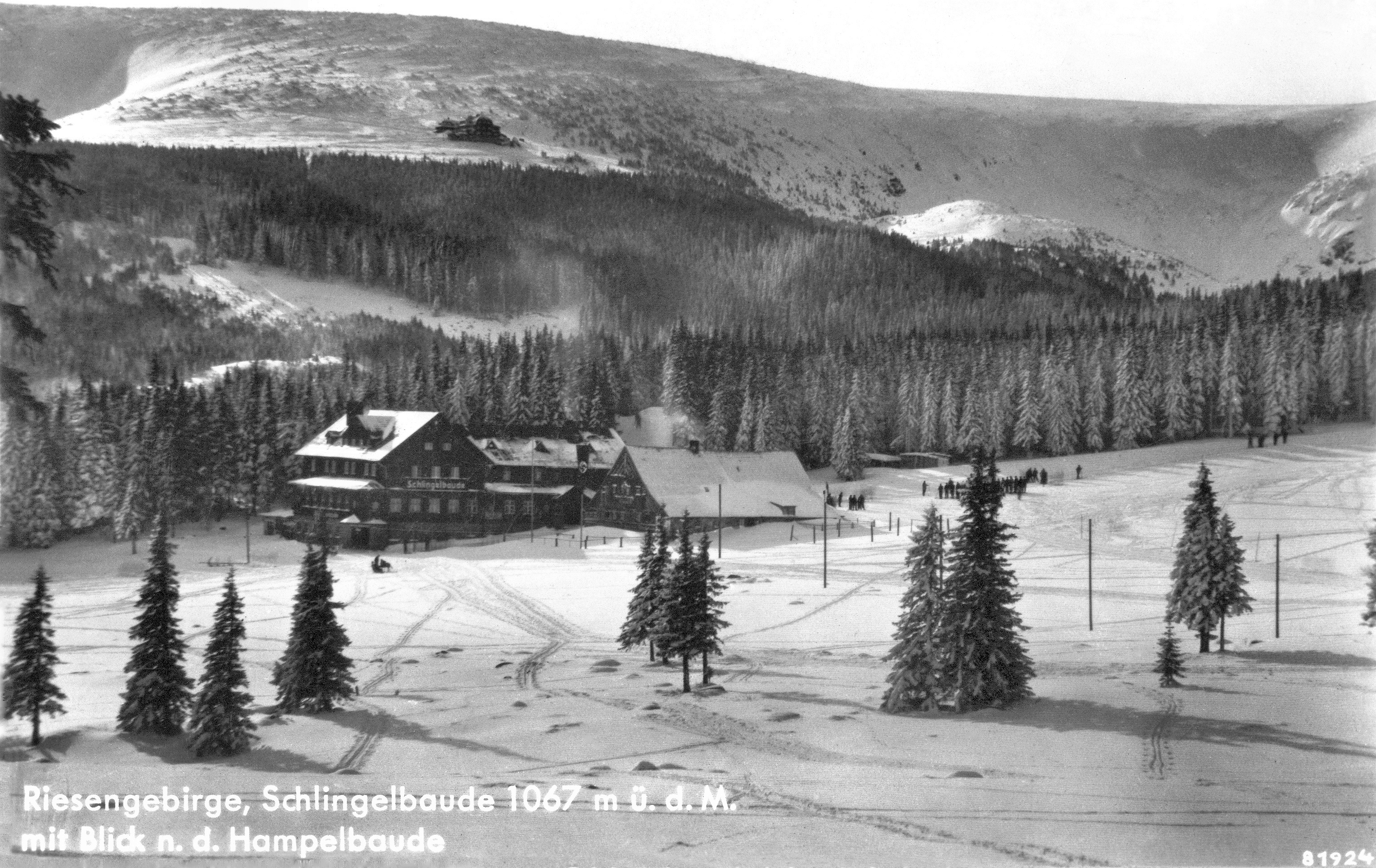 Bronka Czecha Hut, Karkonosze, Germany now Poland.